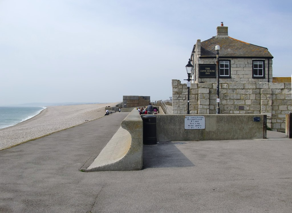 Cove House Inn and the esplande, Chiswell, Portland